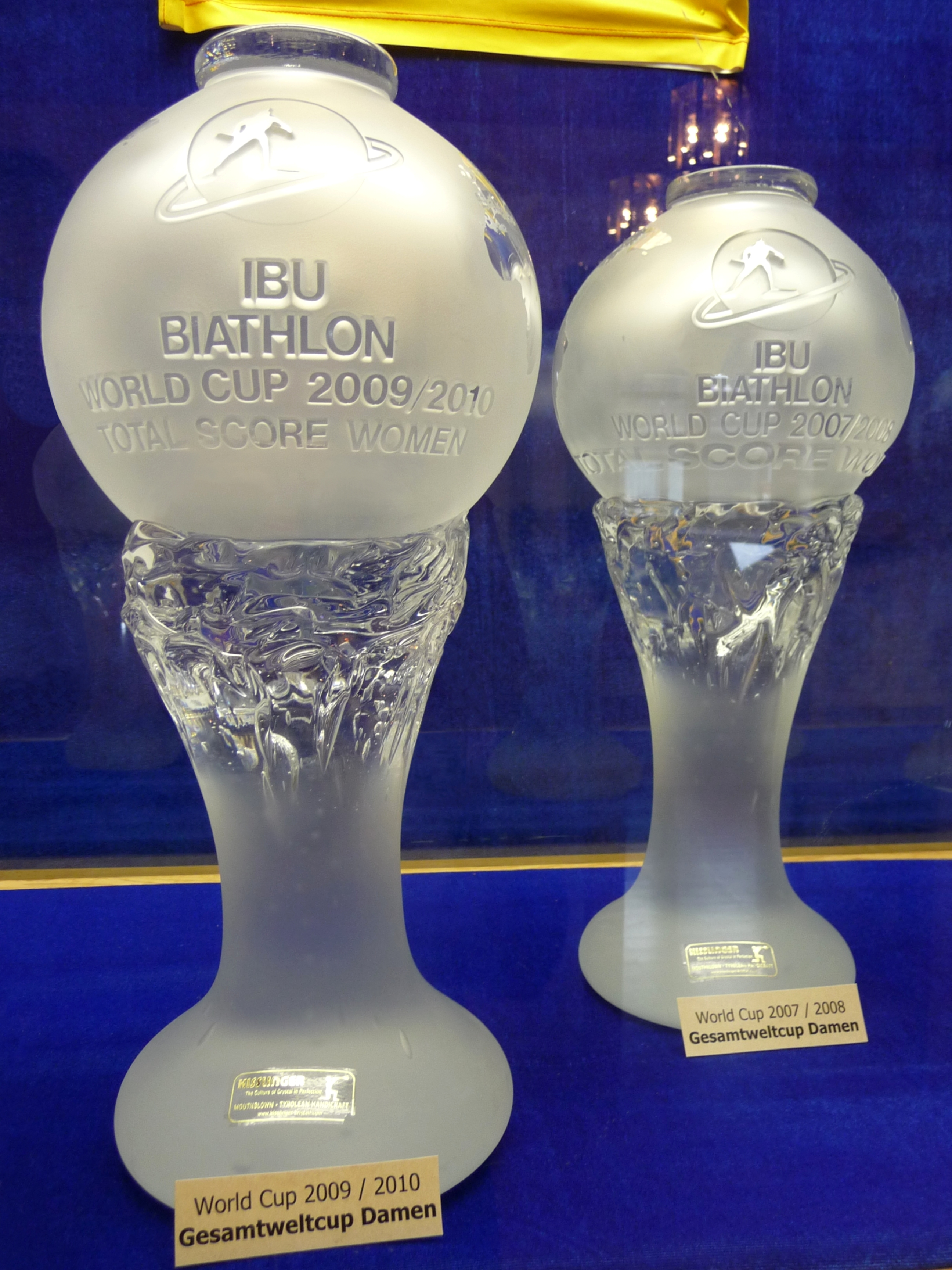 Trophies of biathlete Magdalena Neuner (Big Crystal Globes for overall World Cups 2007-2008 and 2009-2010), temporarily for display at town hall, Wallgau, Germany